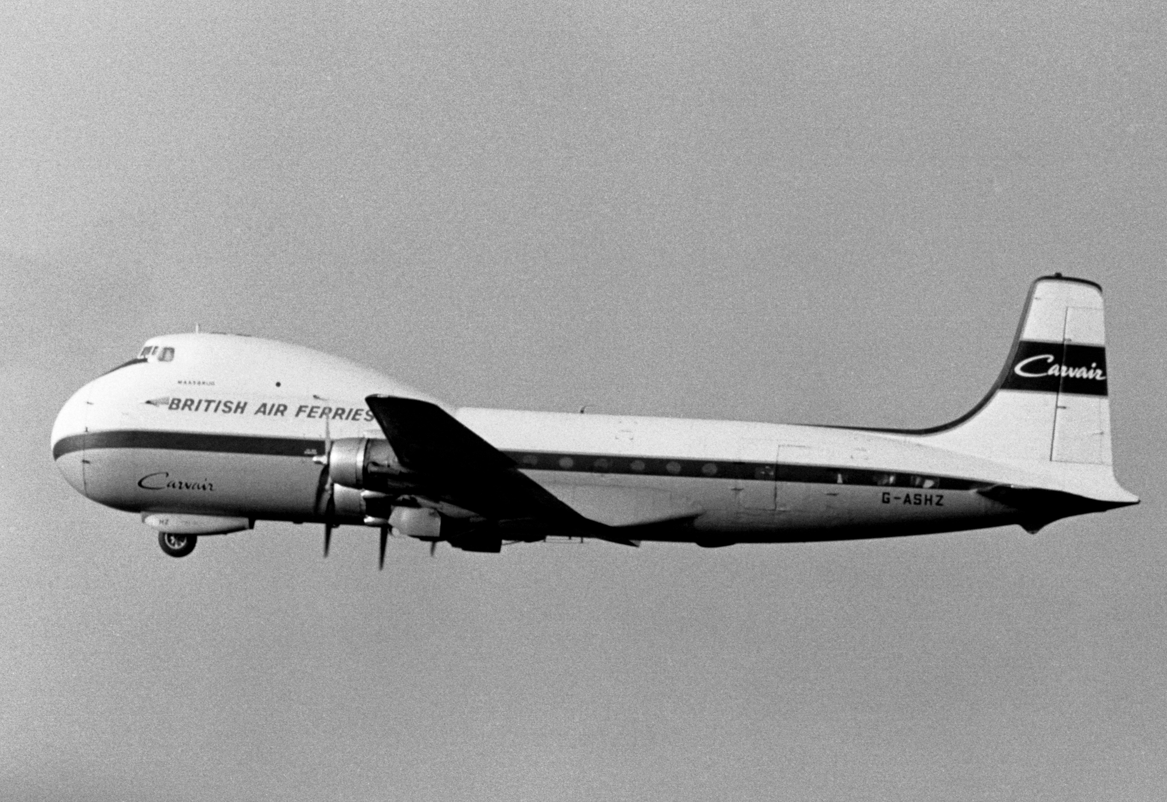 In late 1967 the British United group restructured and BUAF became British Air Ferries. A new livery was adopted, but this carvair retained the BUA dark blue band with the new BAF title in red above the band at the nose, until its next major check and full repaint. G-ASHZ is shown here in that one-off scheme, climbing out of Southend on 3 Nov 1967.